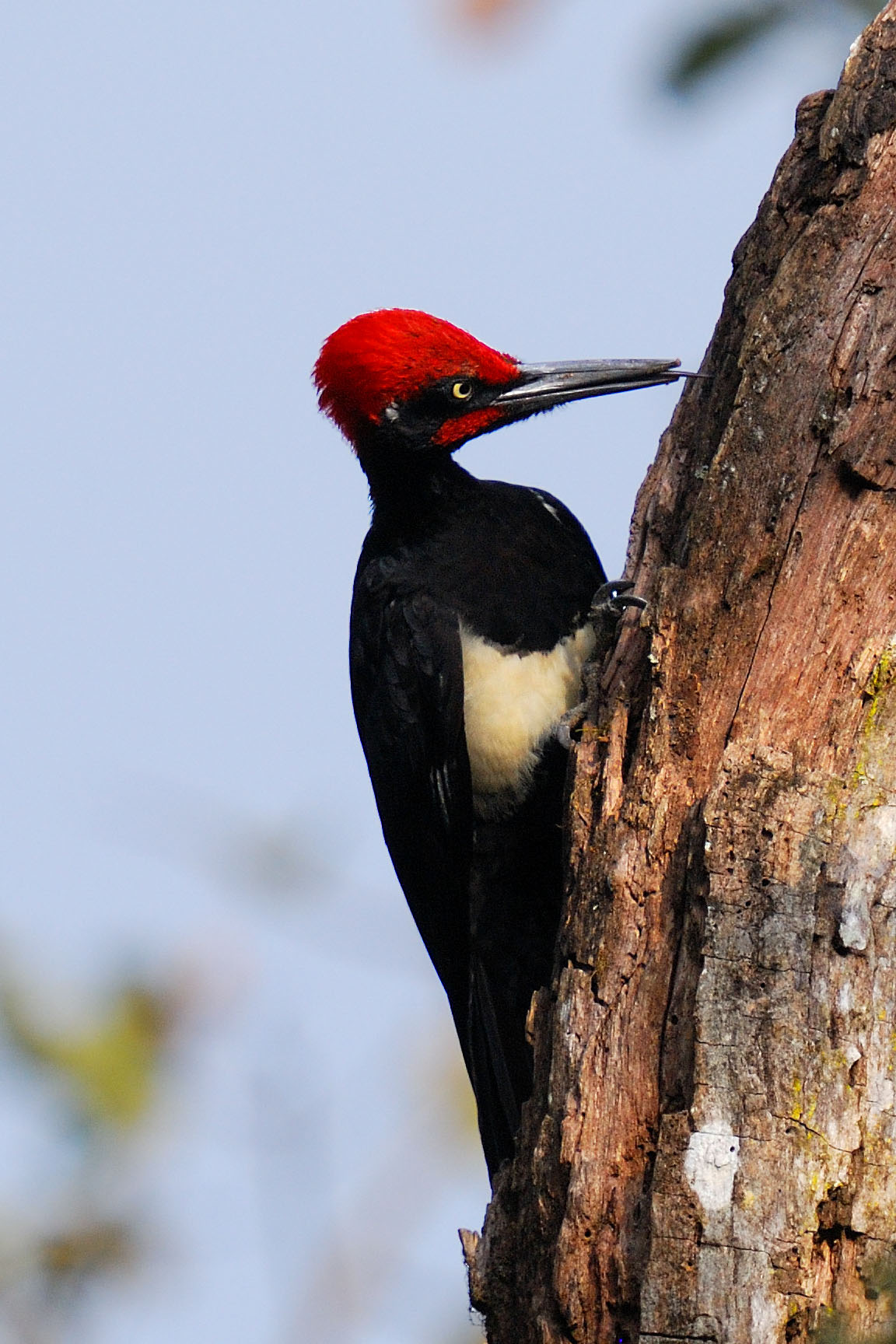 White-bellied Woodpecker of the hodgsonii subspecies at Mudumalai, Tamil Nadu, India